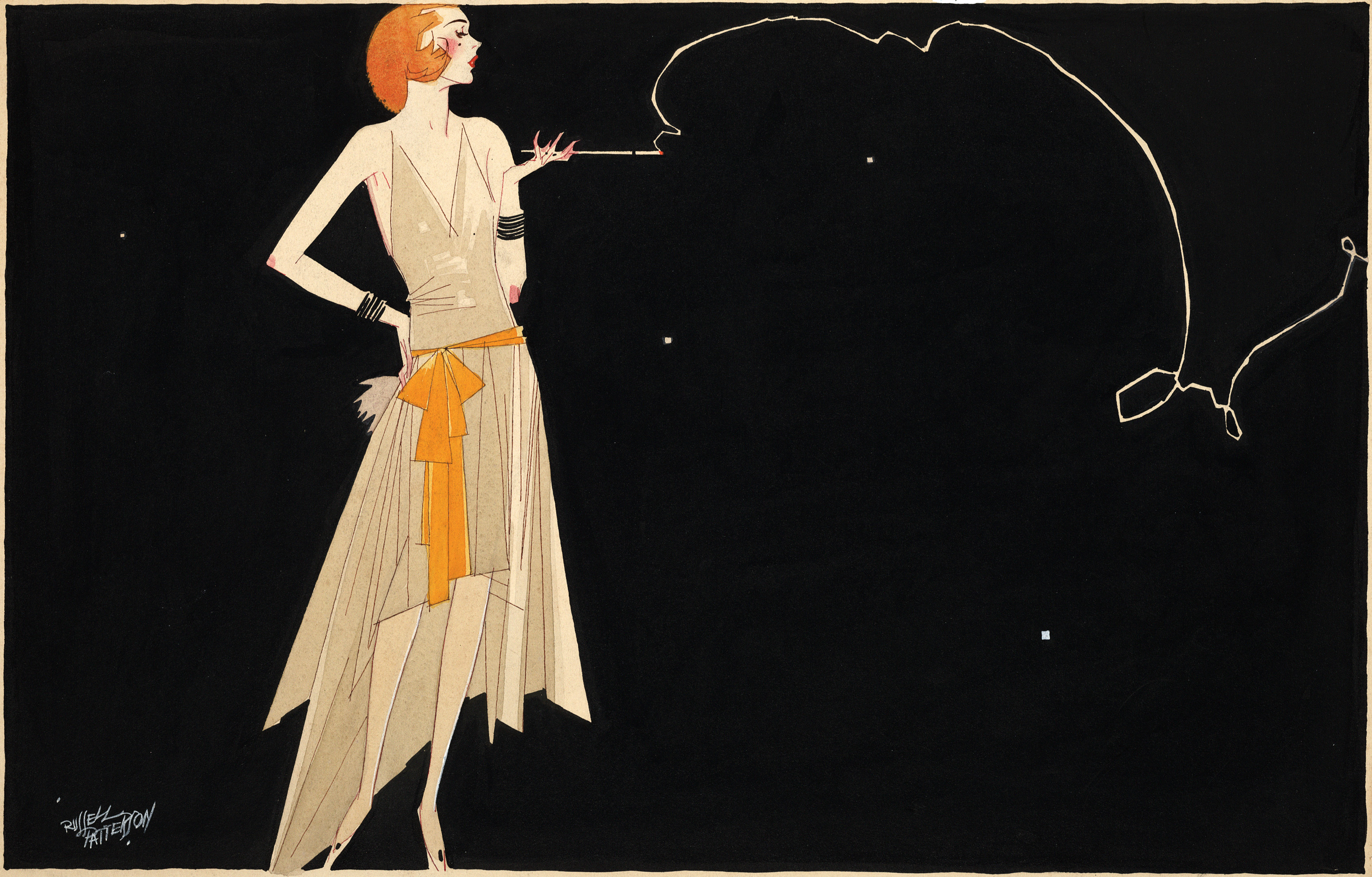 "Where there's smoke there's fire" by American artist Russell Patterson (1893-1977). Full-length illustration of a fashionably dressed flapper standing with one hand on her hip and a cigarette in the other hand. A stream of smoke from the cigarette forms a curving, twisting, decorative line. 1 drawing: India, red and brown inks, with watercolor on illustration board, 45.1 x 59.2 cm. (sheet). Exhibited at "American beauties: drawings from the golden age of illustration", Swann Gallery, Library of Congress, 2002.